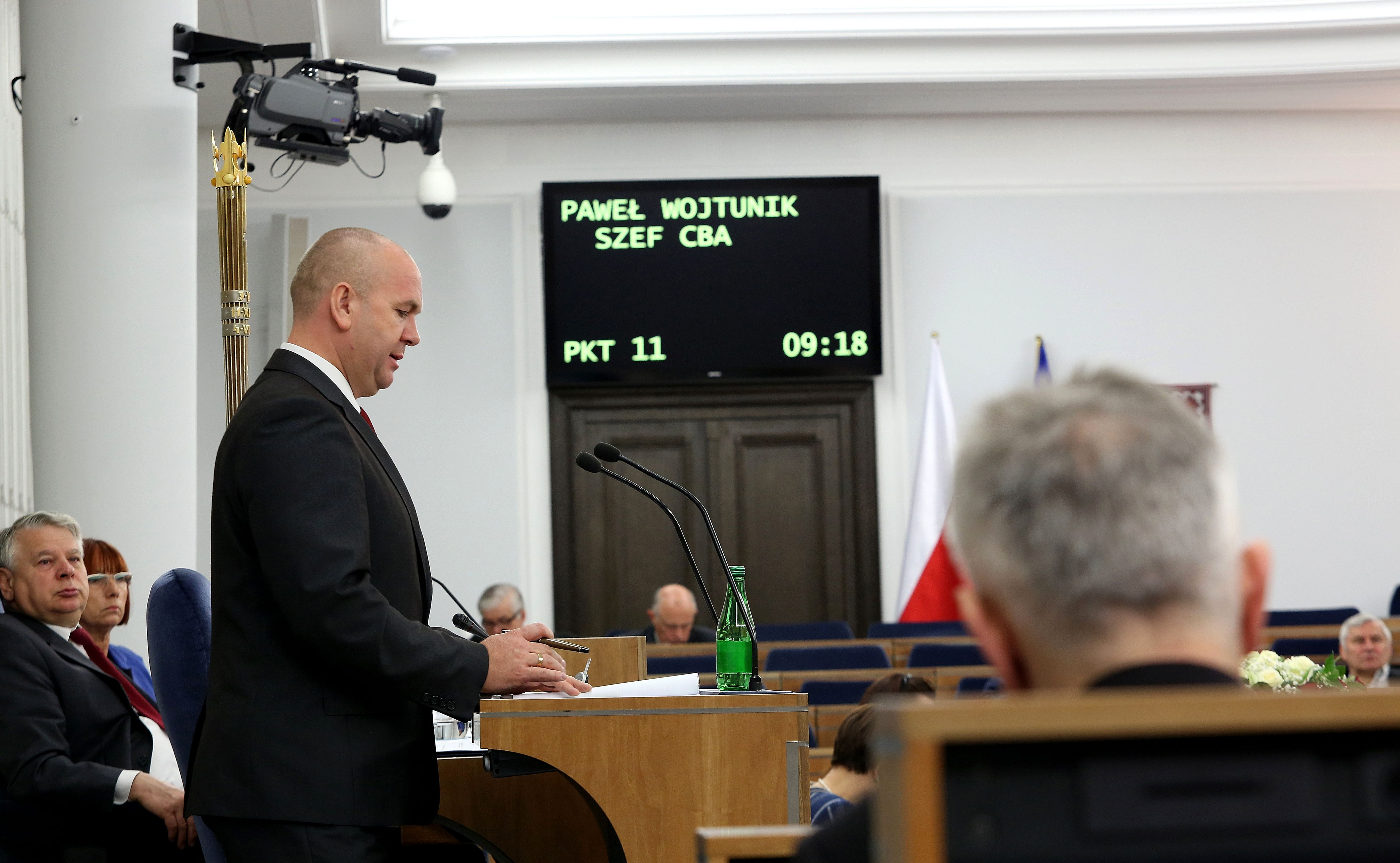 Head of the Central Anticorrupion Bureau (CBA) Paweł Wojtunik. 55th sitting of the Polish Senate